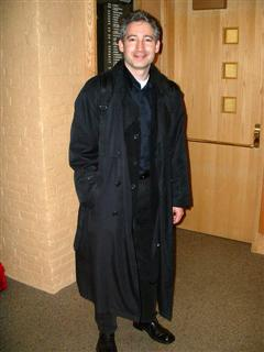 Brian Greene at Harvard University